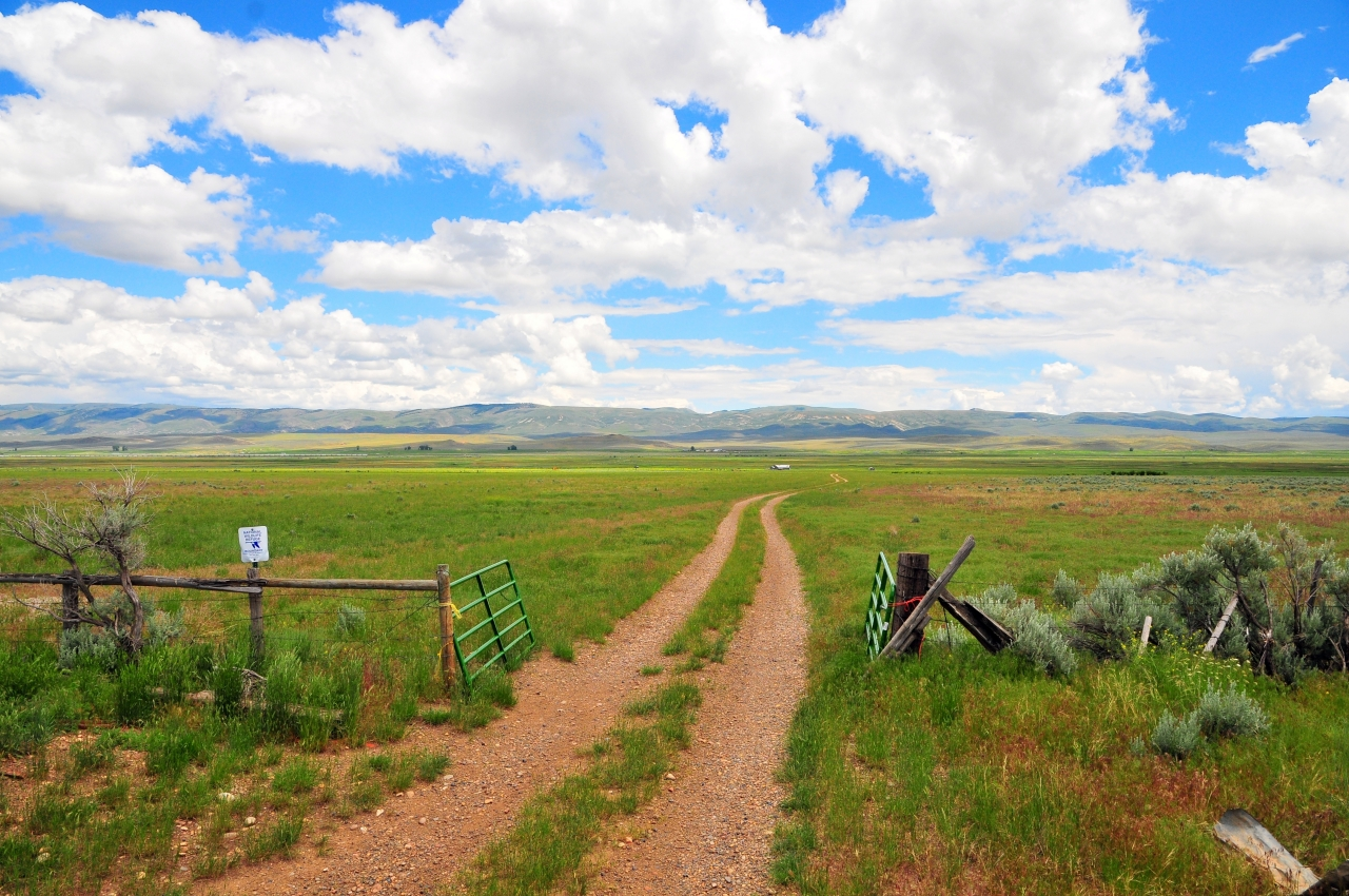 Photo by Keith Penner